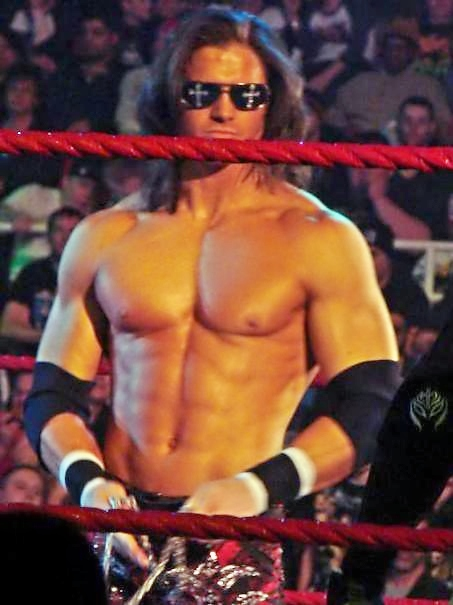 John Morrison at the 2009 Royal Rumble